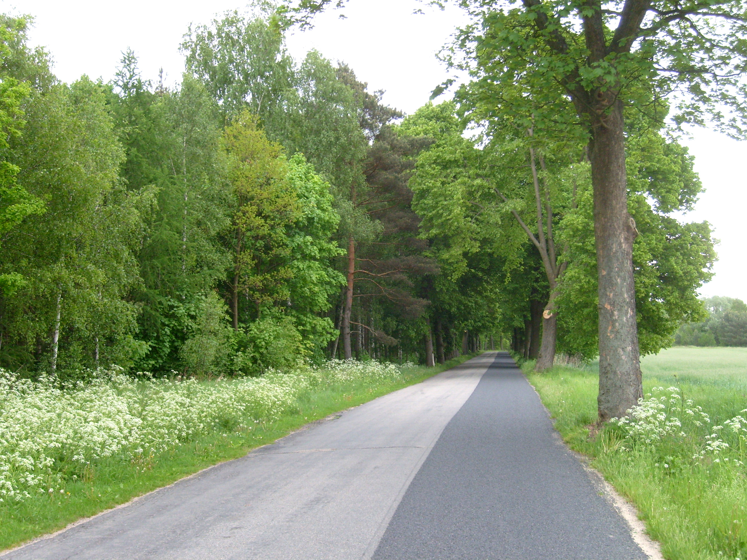 Road from Trzcianka to Biała.